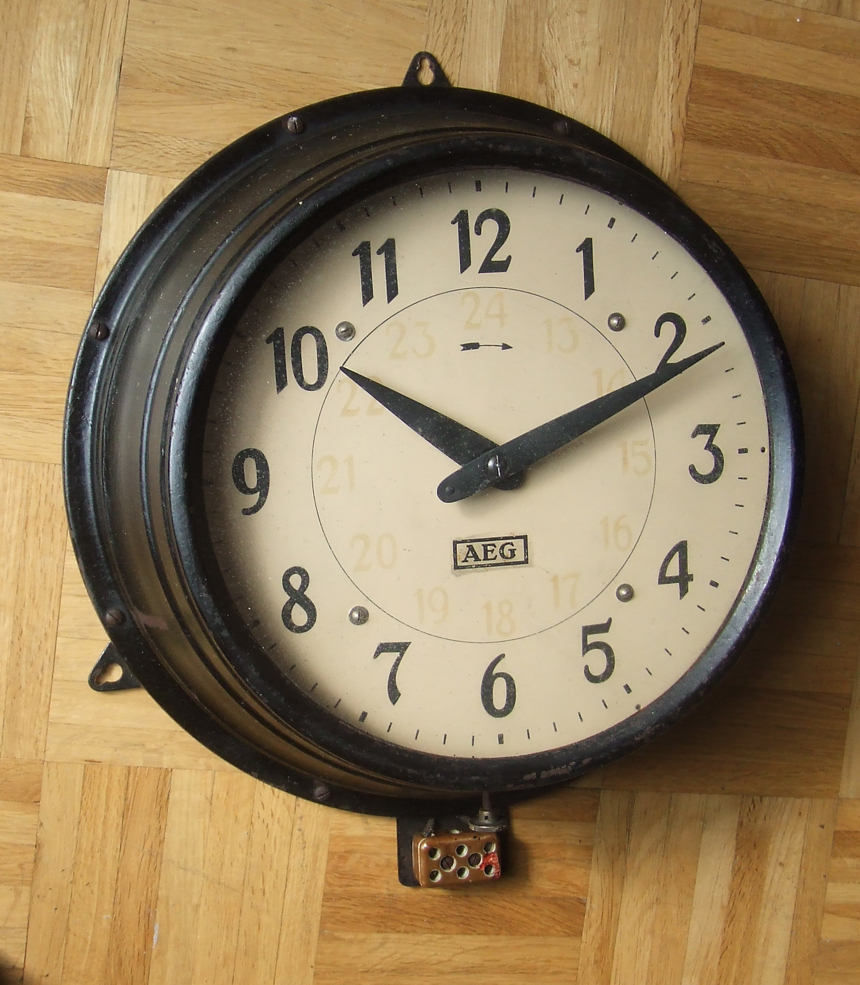 Industrial clock designed by Peter Behrens. Photo: Christos Vittoratos Item is part of my personal design collection